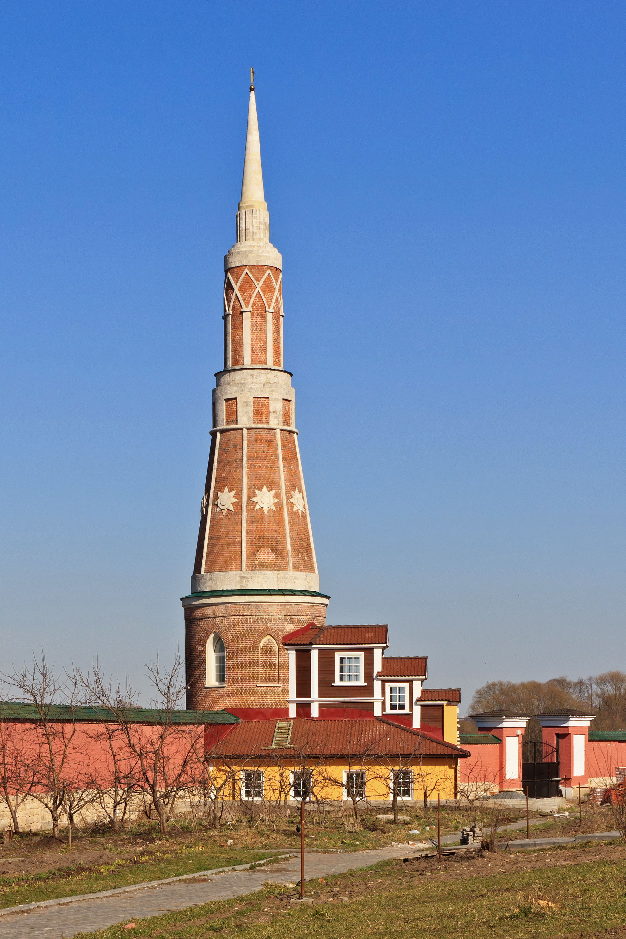 North-East tower of Staro-Golutvin Monastery in Kolomna, Moscow Oblast, Russia.